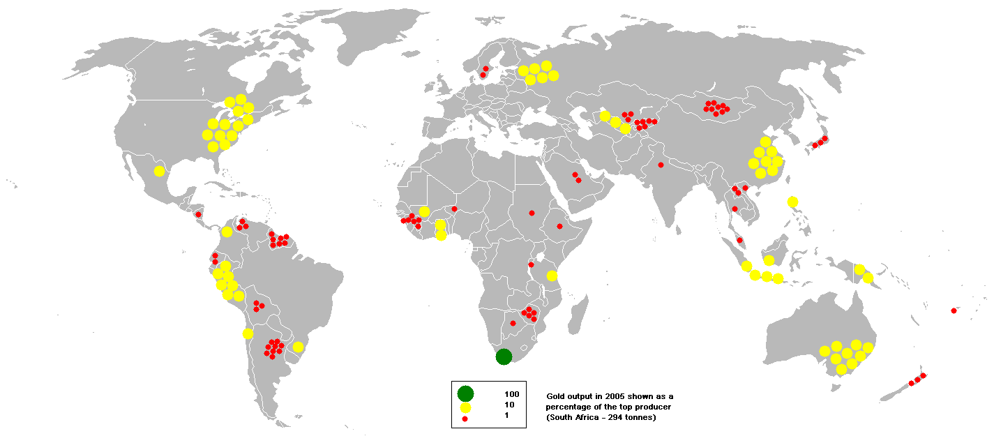 This bubble map shows the global distribution of mined output of gold in 2005 as a percentage of the the top producer (South Africa - 294 tonnes). This map is consistent with incomplete set of data too as long as the top producer is known. It resolves the accessibility issues faced by colour-coded maps that may not be properly rendered in old computer screens.